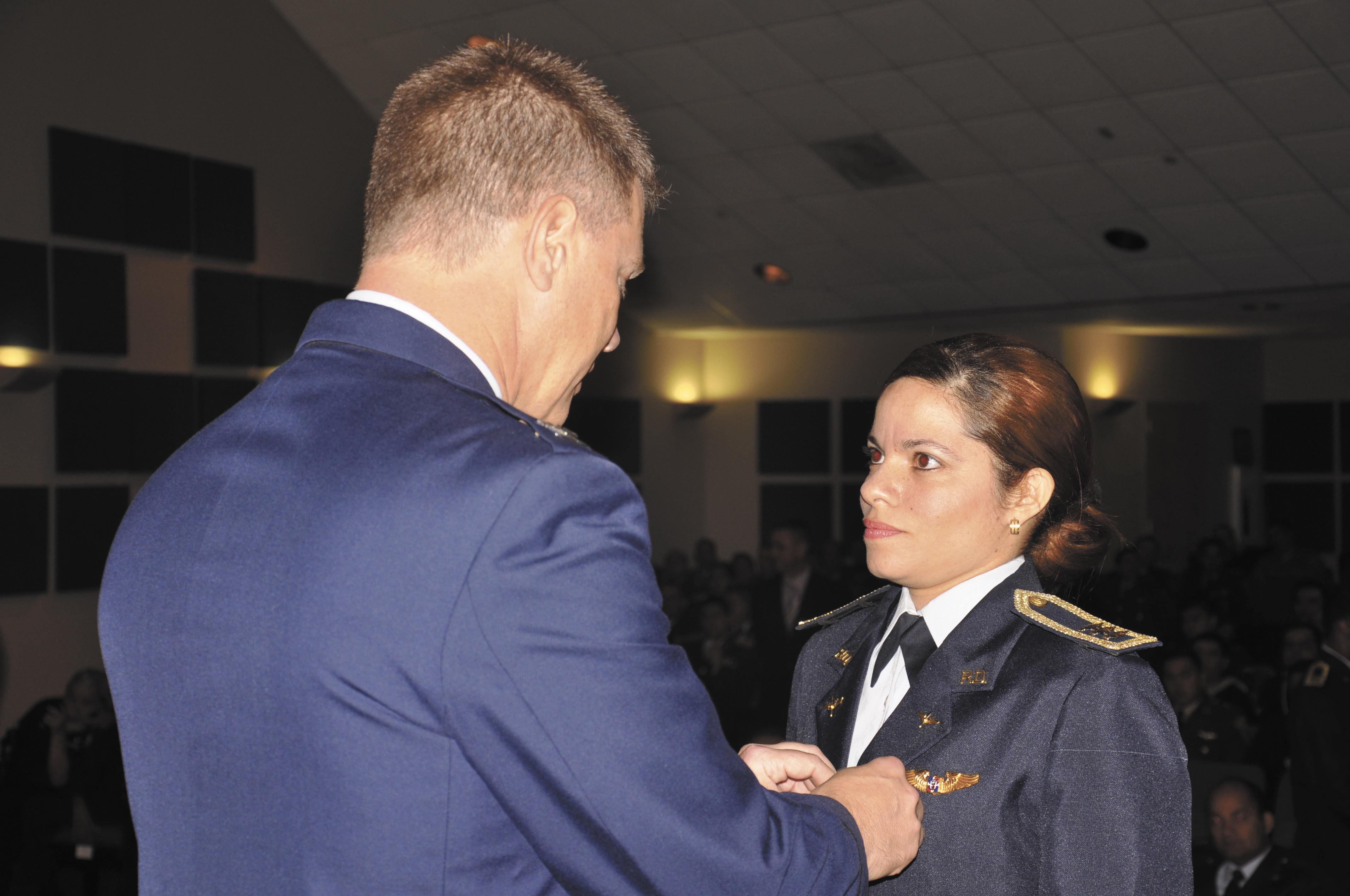 Tejada-Quintana, right, receives an award during graduation from the ISOS at IAAFA. Capt. Maria Tejada-Quintana came to Joint Base San Antonio-Lackland to attend the Inter-American Squadron Officer School at the Inter-American Air Forces Academy, graduating Dec. 12 with 278 fellow IAAFA students. She flies Embraer A-29 Super Tucano light attack aircraft in Dominican Republic's air force. By the time Dominican Republic's air force has six women pilots flying: three in the Transportation Squadron, two in the Search and Rescue Squadron and one in the Combat Squadron as total of 178 pilots in the country's air force.In addition, Tejada-Quintana is a role model in her unique position as Dominican Republic's first female fighter pilot.